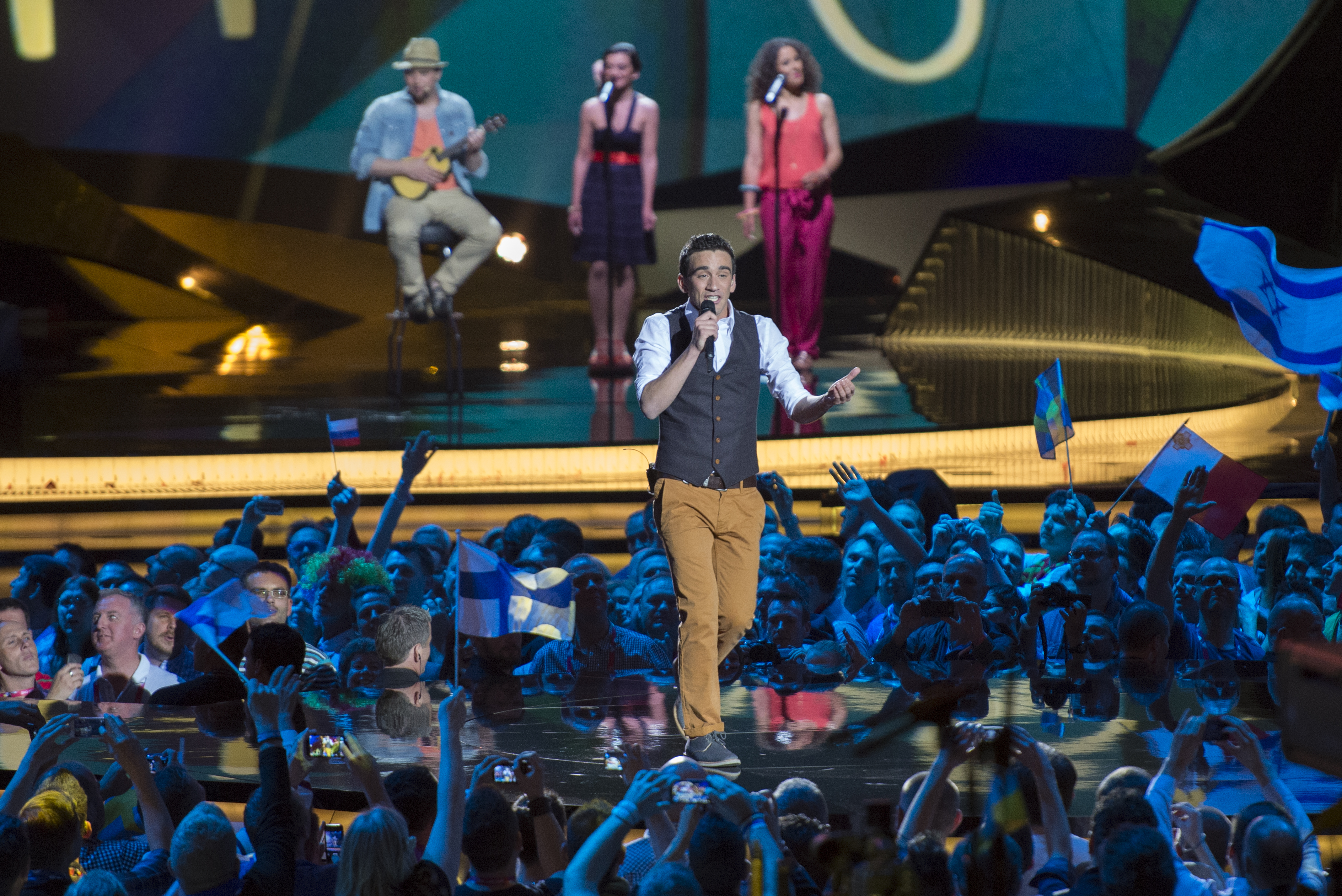 Gianluca representing Malta with the song "Tomorrow" during the second dress rehearsal of the second semi final of the Eurovision Song Contest 2013 in Malmö. (Help translate this text)